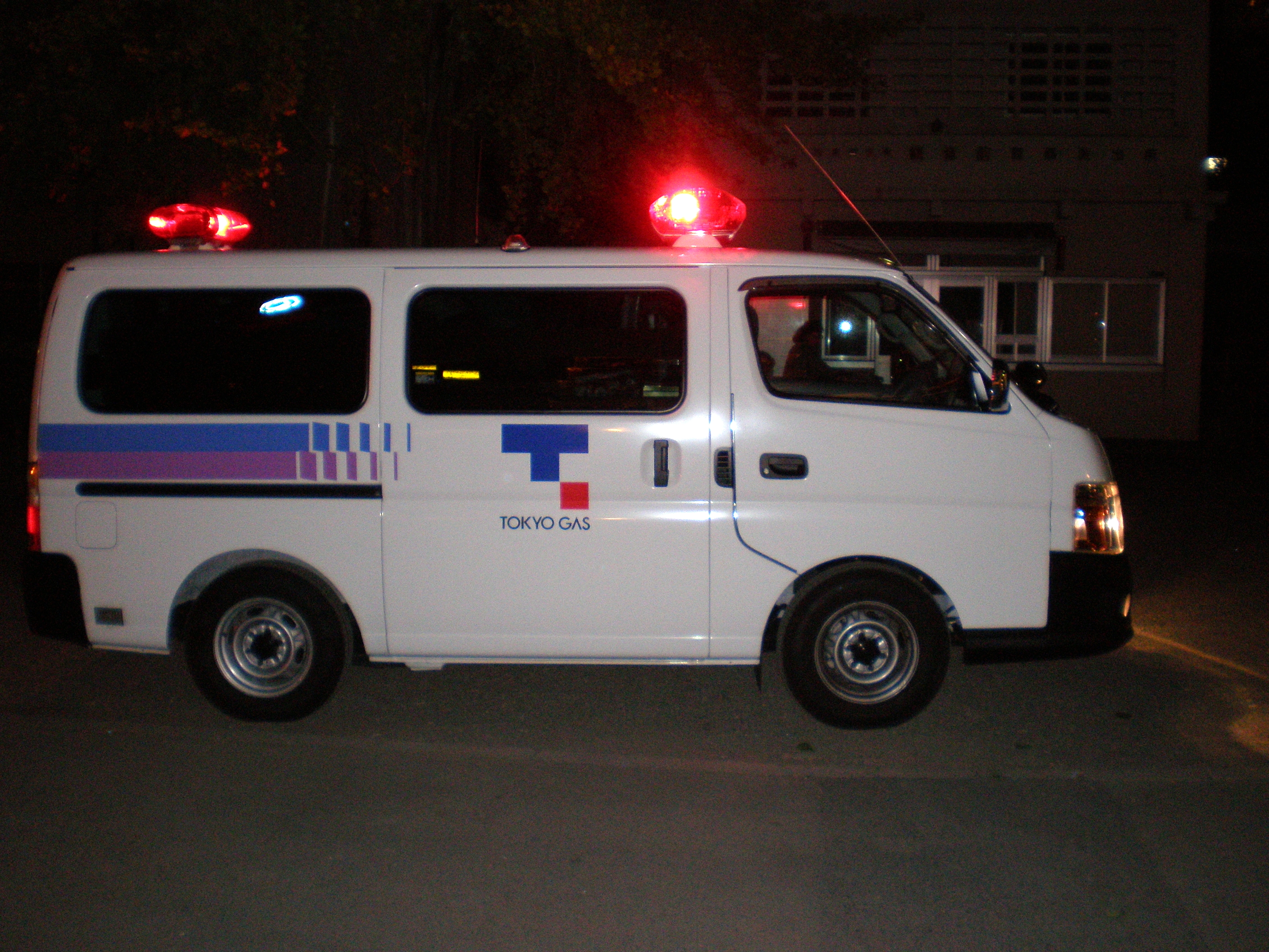 Tokyo Gas Emergency vehicle